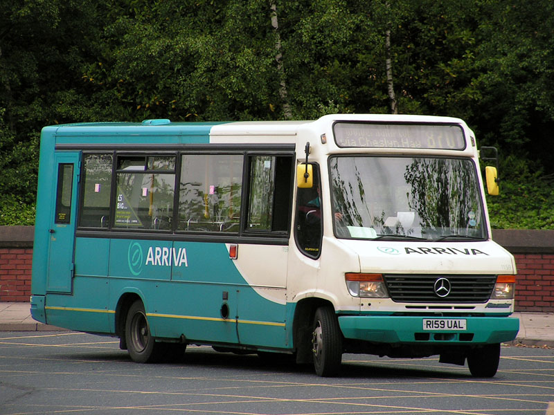 Arriva Midlands North 1159 (R159 UAL), a Cannock depot-based Mercedes-Benz Vario/Alexander ALX100, on route 870.